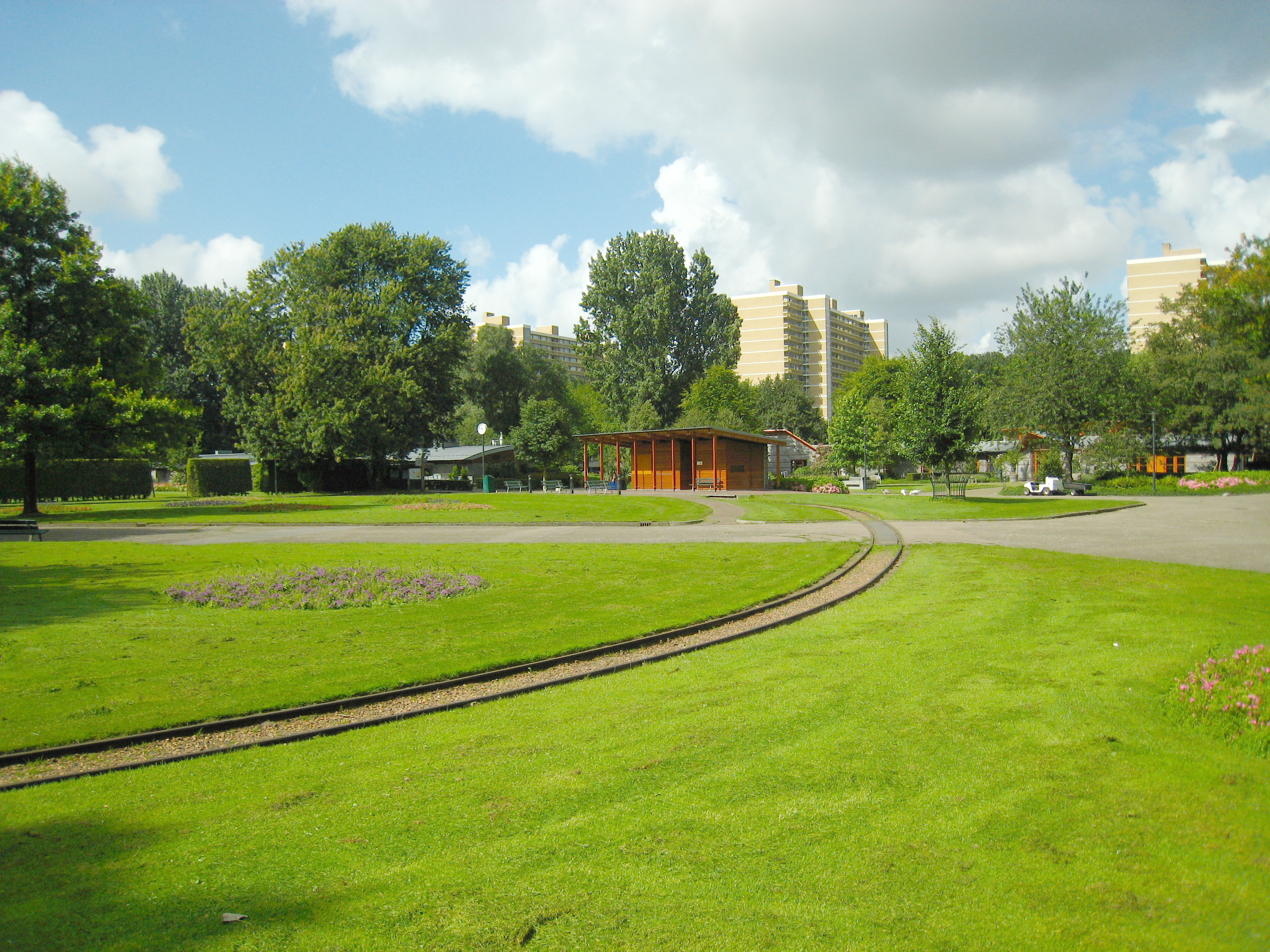 Amstelpark, Amsterdam, Holland. The Amstelpark is a park originally created for the 1972 Floriade.